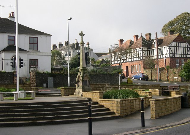 Torpoint The Ellis Memorial in memory of a local man who drowned in the river Tamar trying to rescue two young boys (Not the War Memorial)